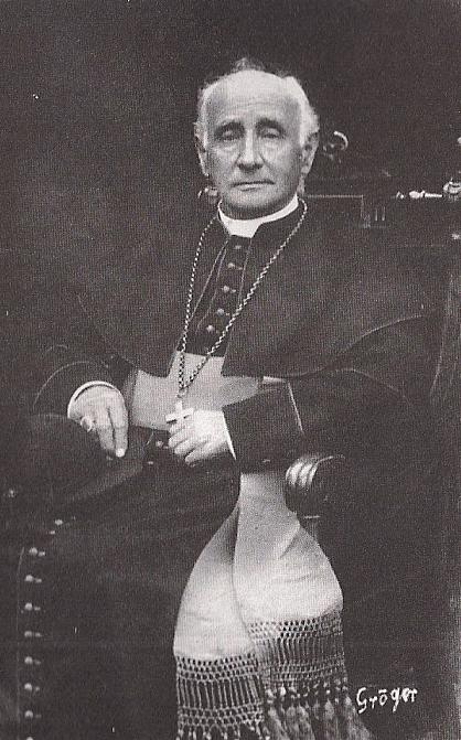 dr Edmund Scholz